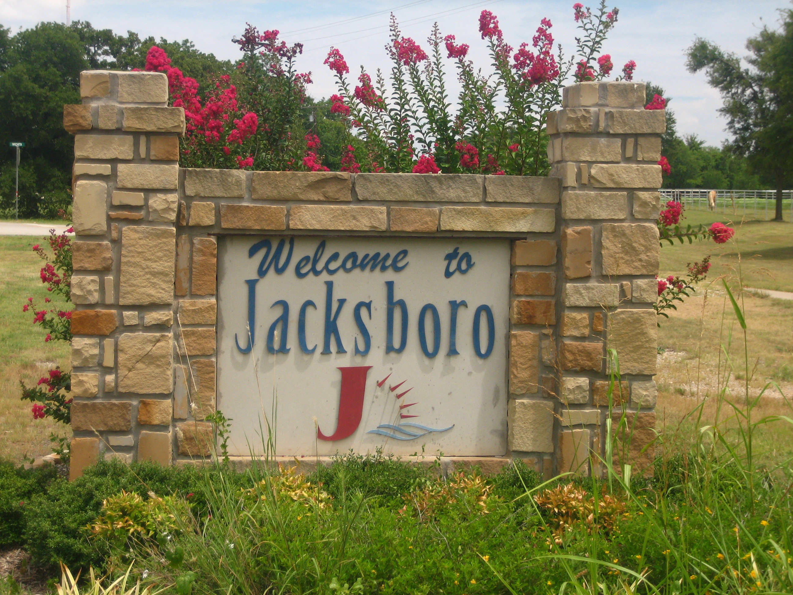 Jacksboro welcoming sign.